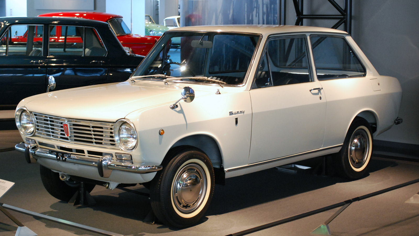 1st generation Datsun_Sunny Model B10 (1966/4 - )